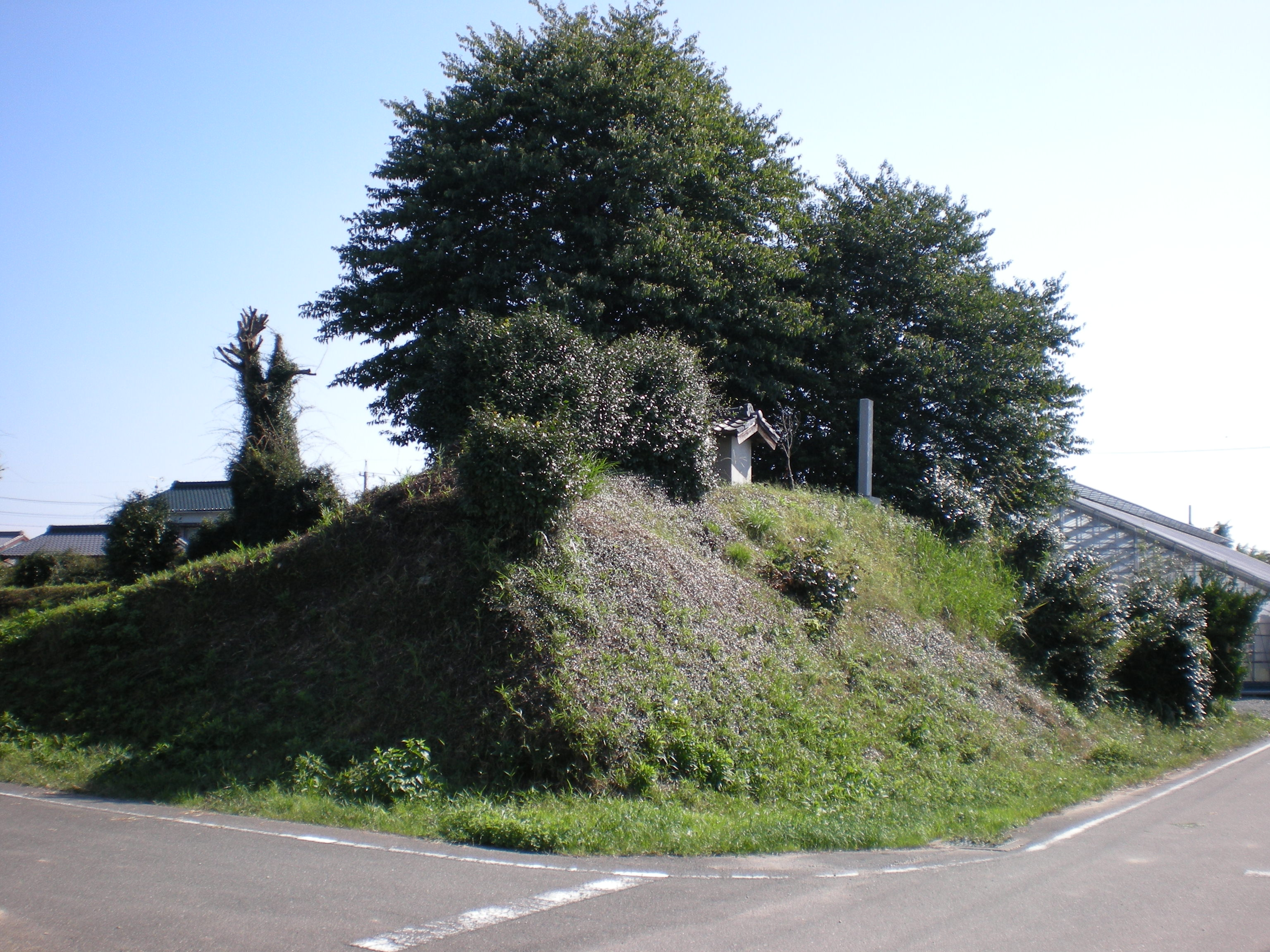 Makino_Castle_in_Aichi_Japan / The wall of south side.